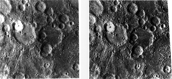 Mariner 10 stereo images of Murasaki and Hiroshige craters, Mercury. the image on the left was taken during the second flyby, that on the right at the first. The 125 km diameter Murasaki is on the left, and 140 km Hiroshige on the right. Extending downward from Murasaki crater is Goldstone Vallis, and on the upper left rim is Kuiper crater. North is up.